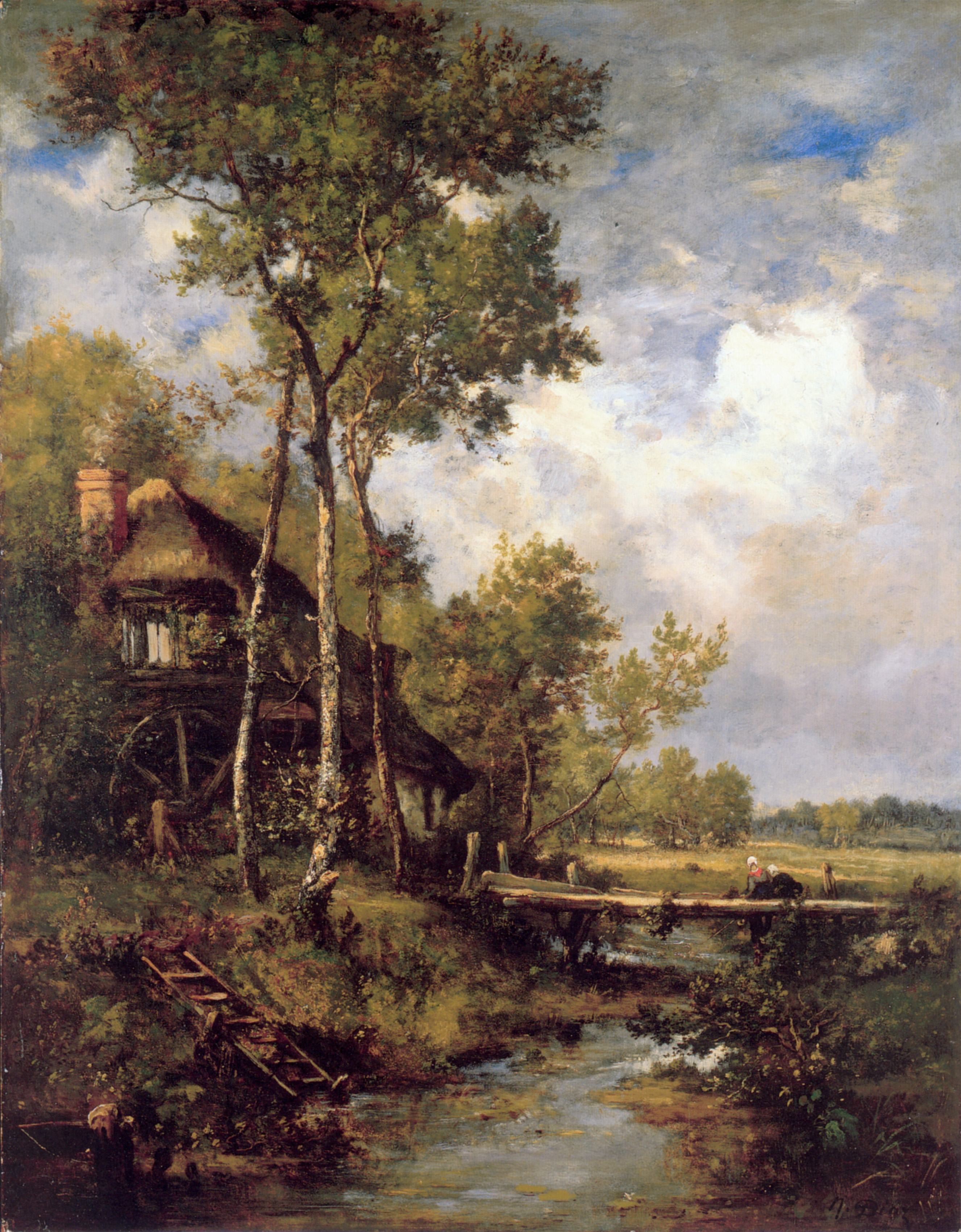 The Old Windmill near Barbizon